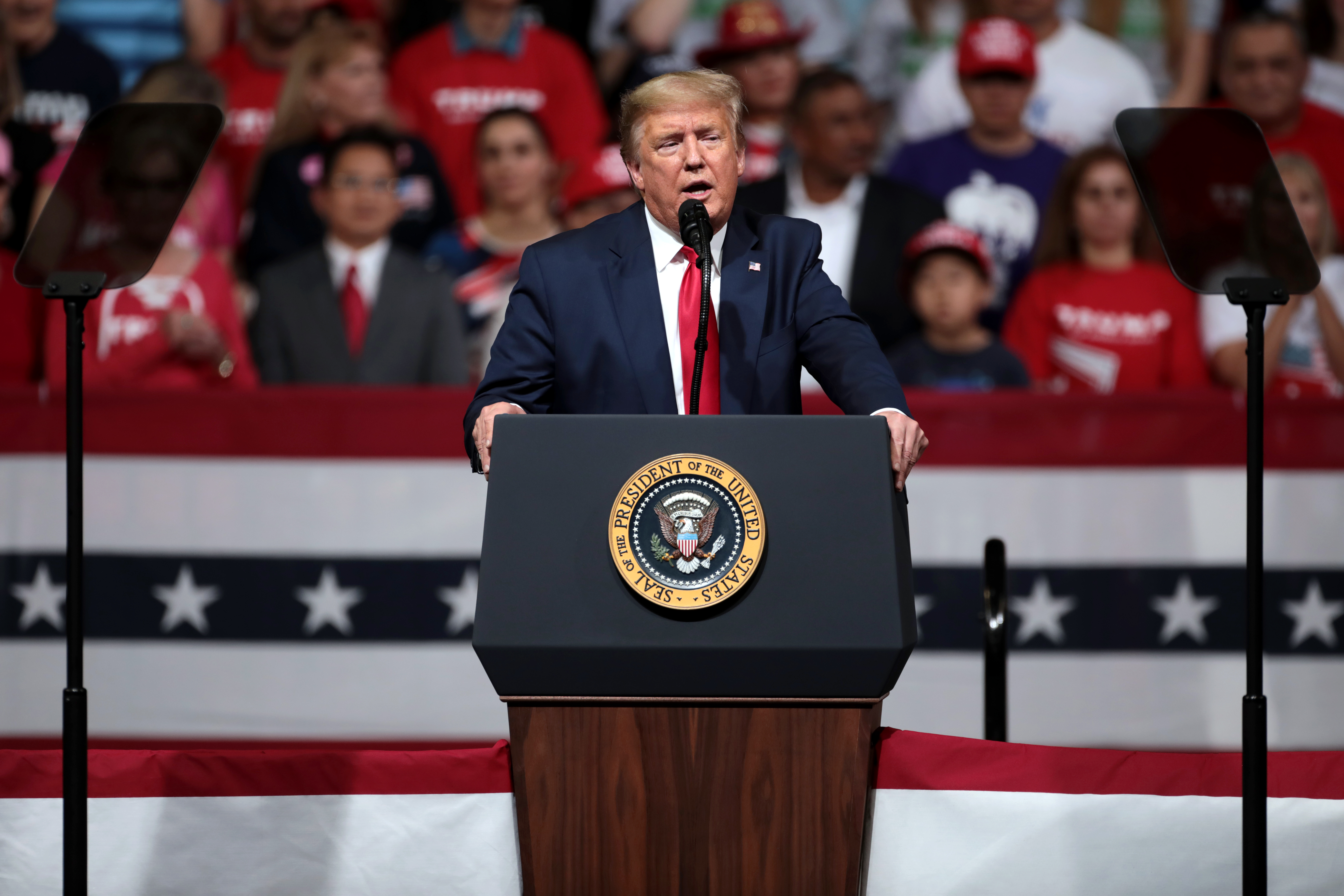 President of the United States Donald Trump speaking with supporters at a "Keep America Great" rally at Arizona Veterans Memorial Coliseum in Phoenix, Arizona.